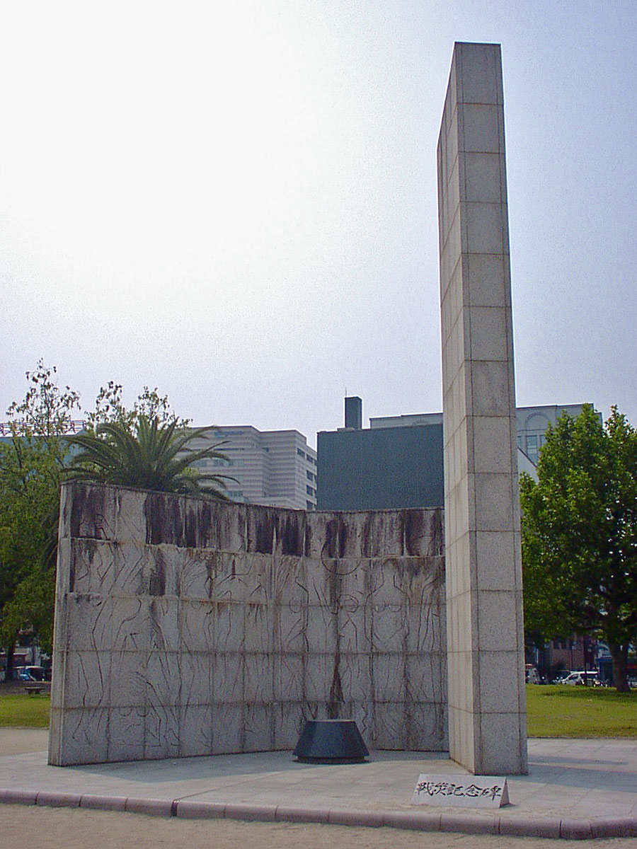 Fukuoka war damage monument, in Hakata, Fukuoka, Japan.